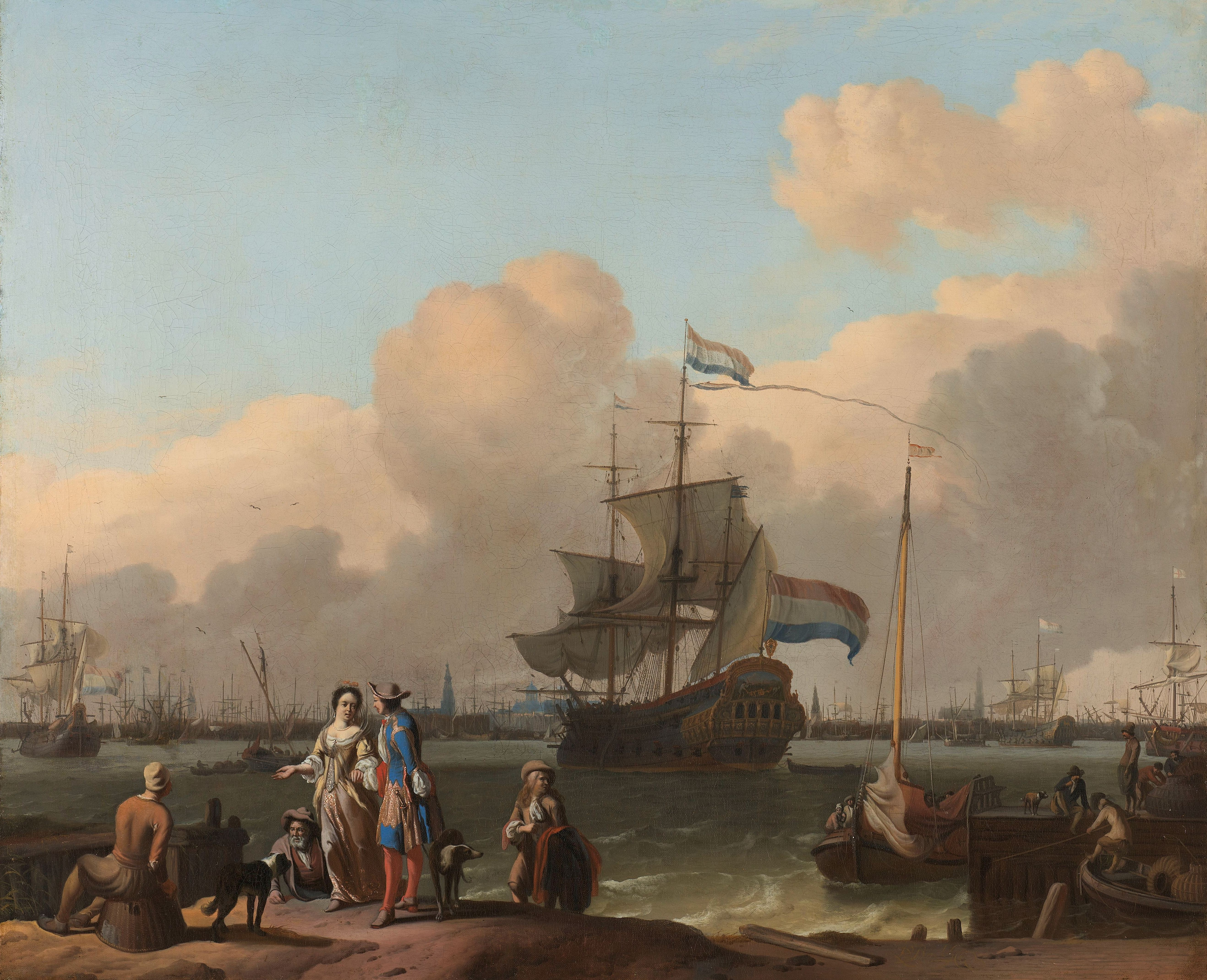 View of a port with many larger and smaller ships including the tall ship ‘De Ploeg’ (The Plough, a frigate with a ploughing farmer painted on her stern). The city can be identified as Amsterdam though its buildings (from left to right: Oude Kerk, Royal Palace, Haringpakkerstoren and Westertoren). In the foreground various people, on the right a jetty.